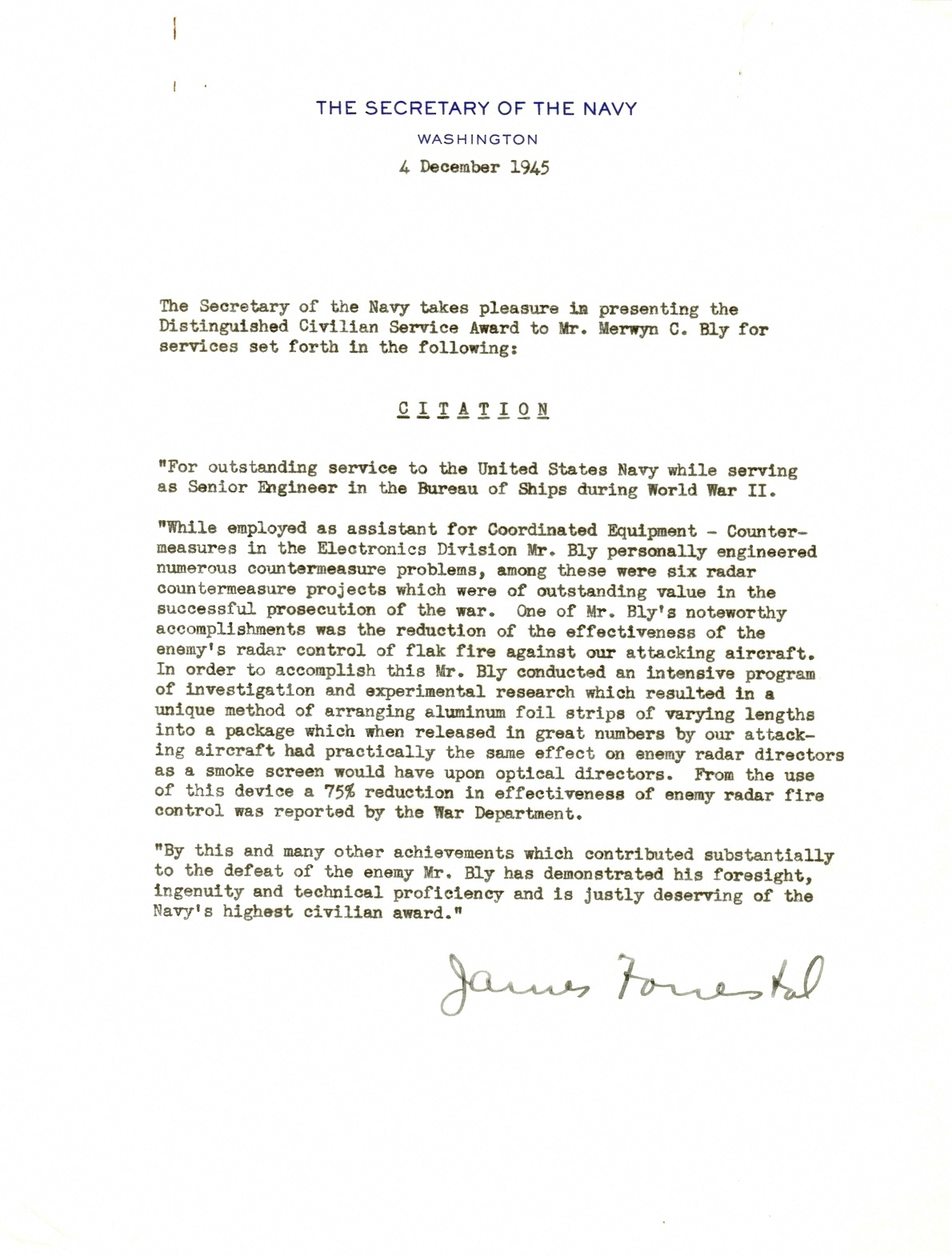 Merwyn Bly is awarded the Civilian Distinguished Service Award for his work in developing the radar countermeasure now known as Chaff.